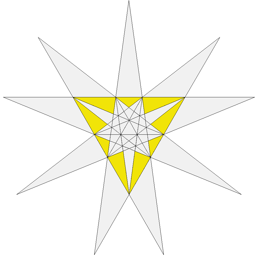 Facets of sixteenth stellation of icosahedron